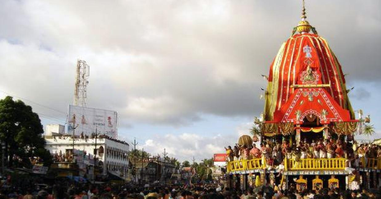 Nandighosha being pulled by Devotees